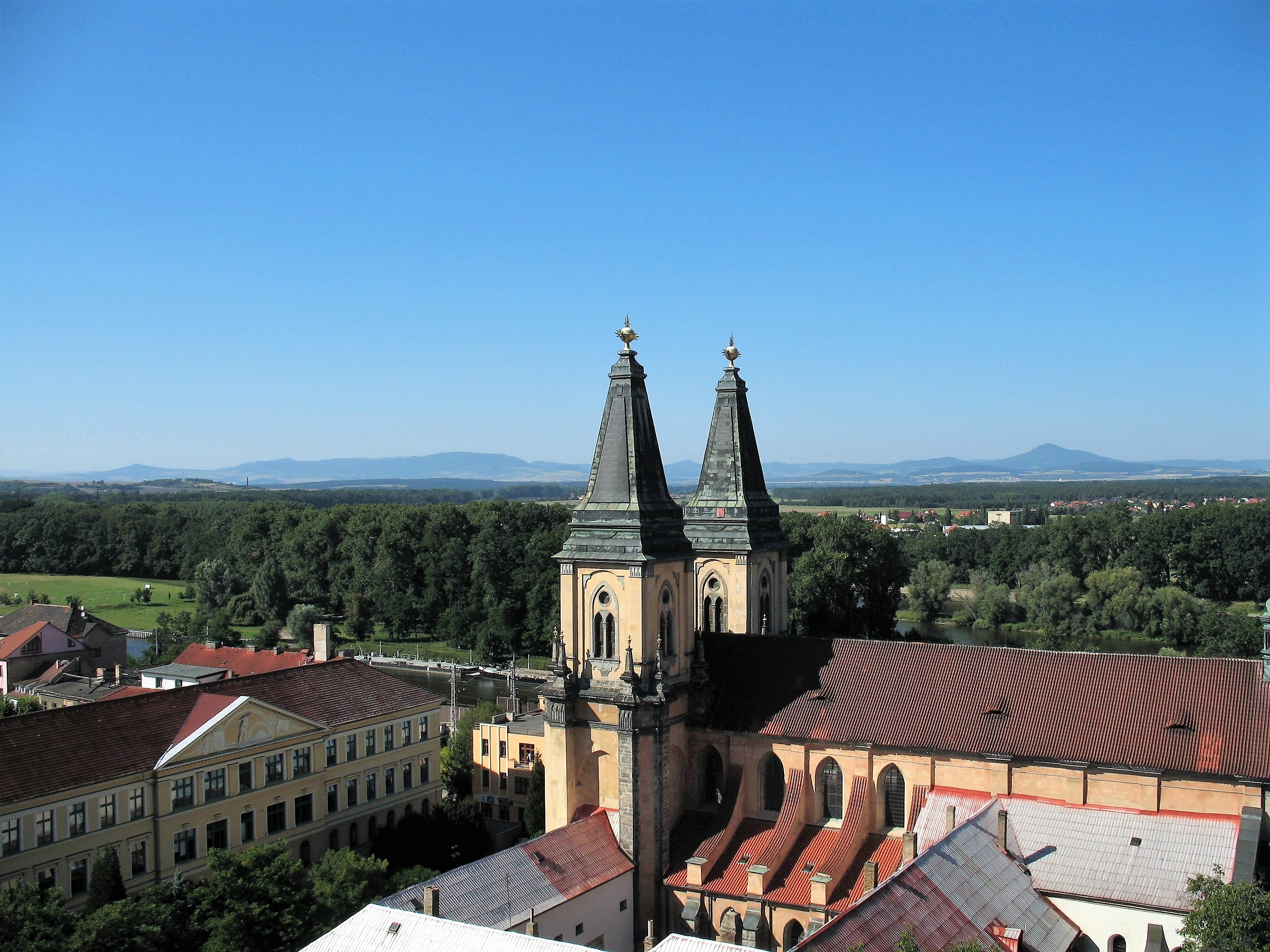 Views from Bell Tower in Roudnice nad Labem, Czech Republic